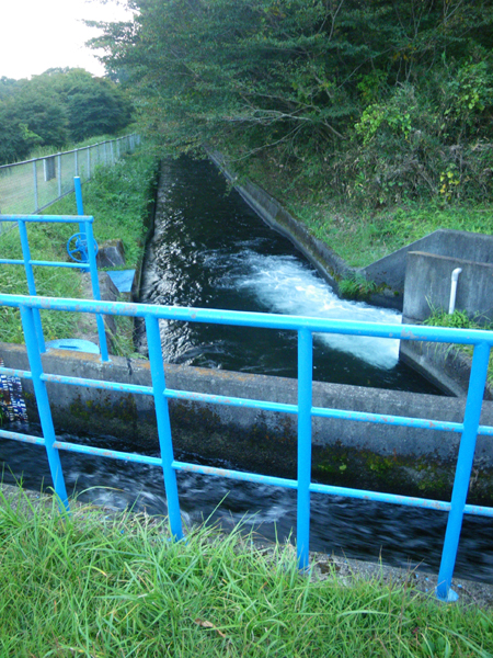 Hikinuma-yōsui aqueduct and Nasu-sosui canal. Nasushiobara, Tochigi, Japan.